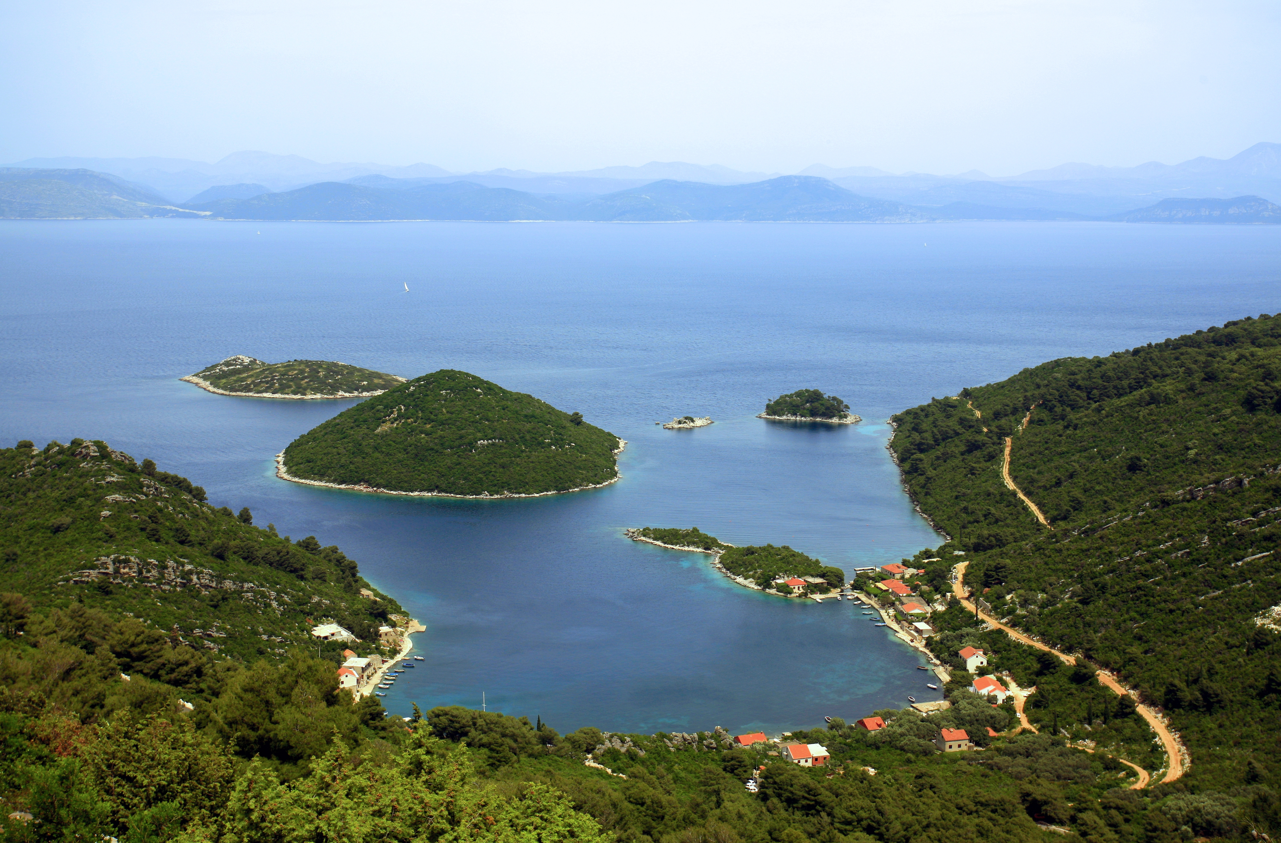 Prožurska Luka, small fisherman village on the island of Mljet, Croatia